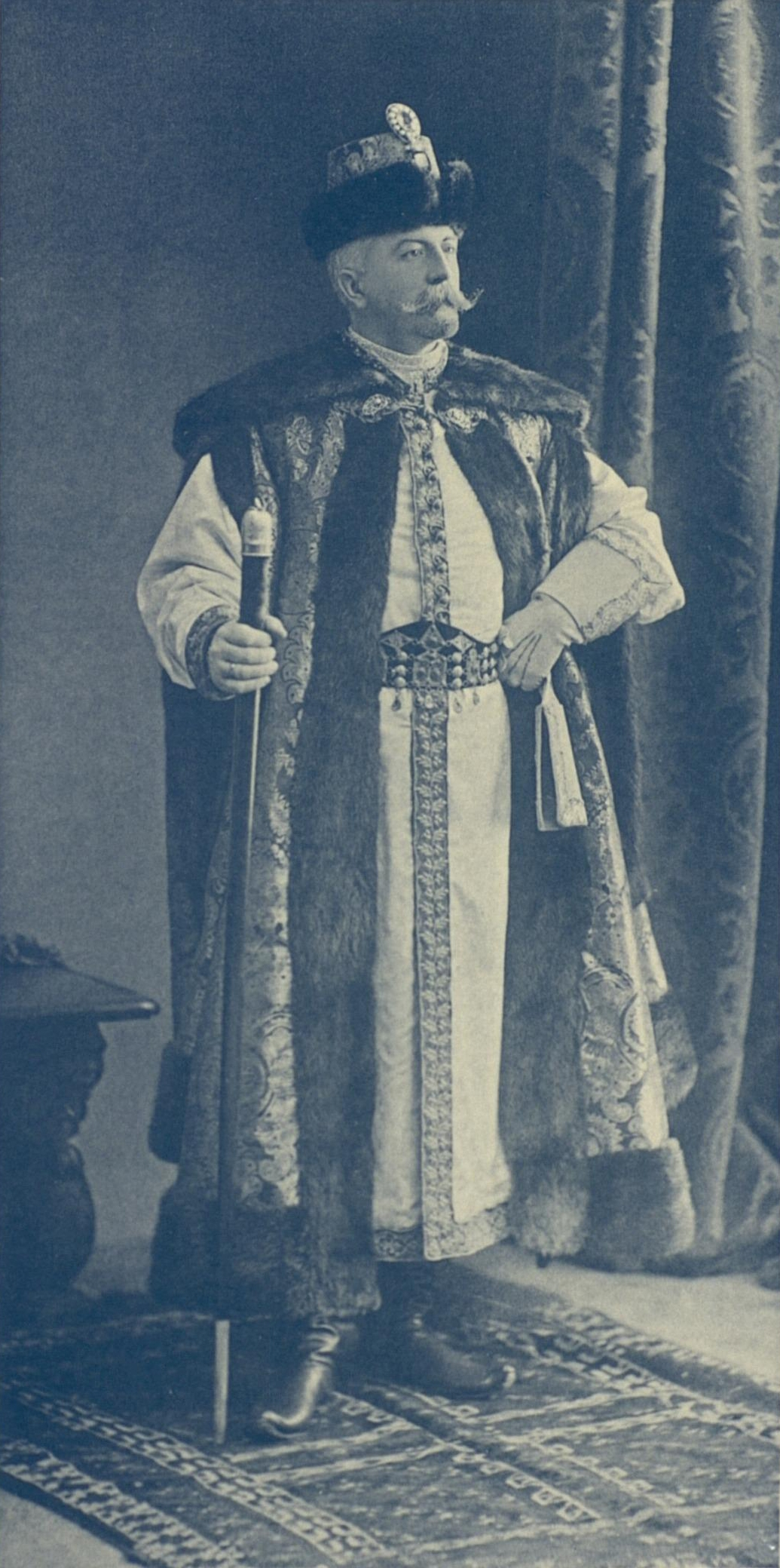 Vasiliy Alexandrovich, Count Hendrikov in the attire based from Stolnik Peter Potemkin's portrait by Juan Carreño de Miranda